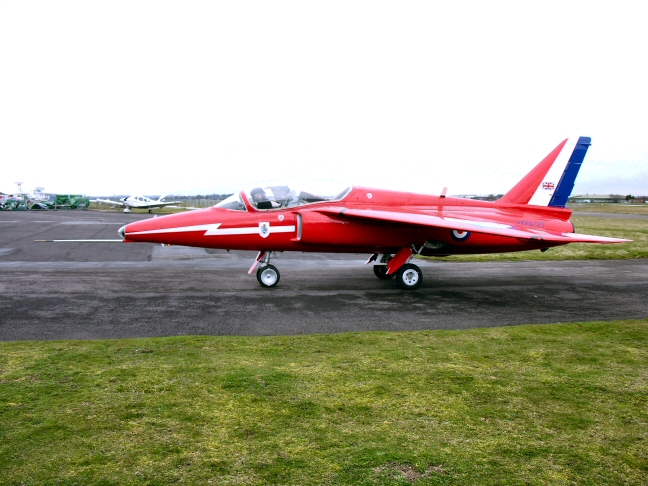 Former Red Arrows Gnat XR537 undergoing runway tests at Bournemouth Airport (EGHH); an important element of the restoration project. XR537 was first commissioned into the Royal Air Force in 1963, starting service with No.4 FTS at Valley in July of that year. In 1975, XR537 was transferred to the Central Flying School and repainted in Red Arrows livery for transfer to the famous squadron in August. XR537 served as one of the spare aircraft until, in 1976, the Team Leader's plane went unservicable. XR537 was then used as the lead aircraft during the 1976 display season. In 1979, the Royal Air Force replaced the Gnat with the British Aerospace Hawk T1.A. All the Gnats were either sold or relocated for engineering training purposes. On withdrawal from flying duties in September 1979, XR537 was delivered to the Royal Aircraft Establishment on 20th September 1979, before becoming 8642M as a ground instructional airframe with No.1 SoTT at Cosford. It was maintained in a ground running condition, still in its Red Arrows colours, until surplus to requirements at the end of 1989. Sold at a Sotheby's Auction in March 1990, XR537/8642M was moved by road to Bournemouth Aviation Museum on 5th April, being placed on the civil register as G-NATY in June 1990. Although known on the civil register as G-NATY, the aircraft has permission to be displayed in her correct Red Arrows livery and with her former military registration of XR537. Following a two-year restoration programme, XR537 was granted its Permit to Test on 14th June 2007 and completed its inaugural return to flight on 9th August 2007.